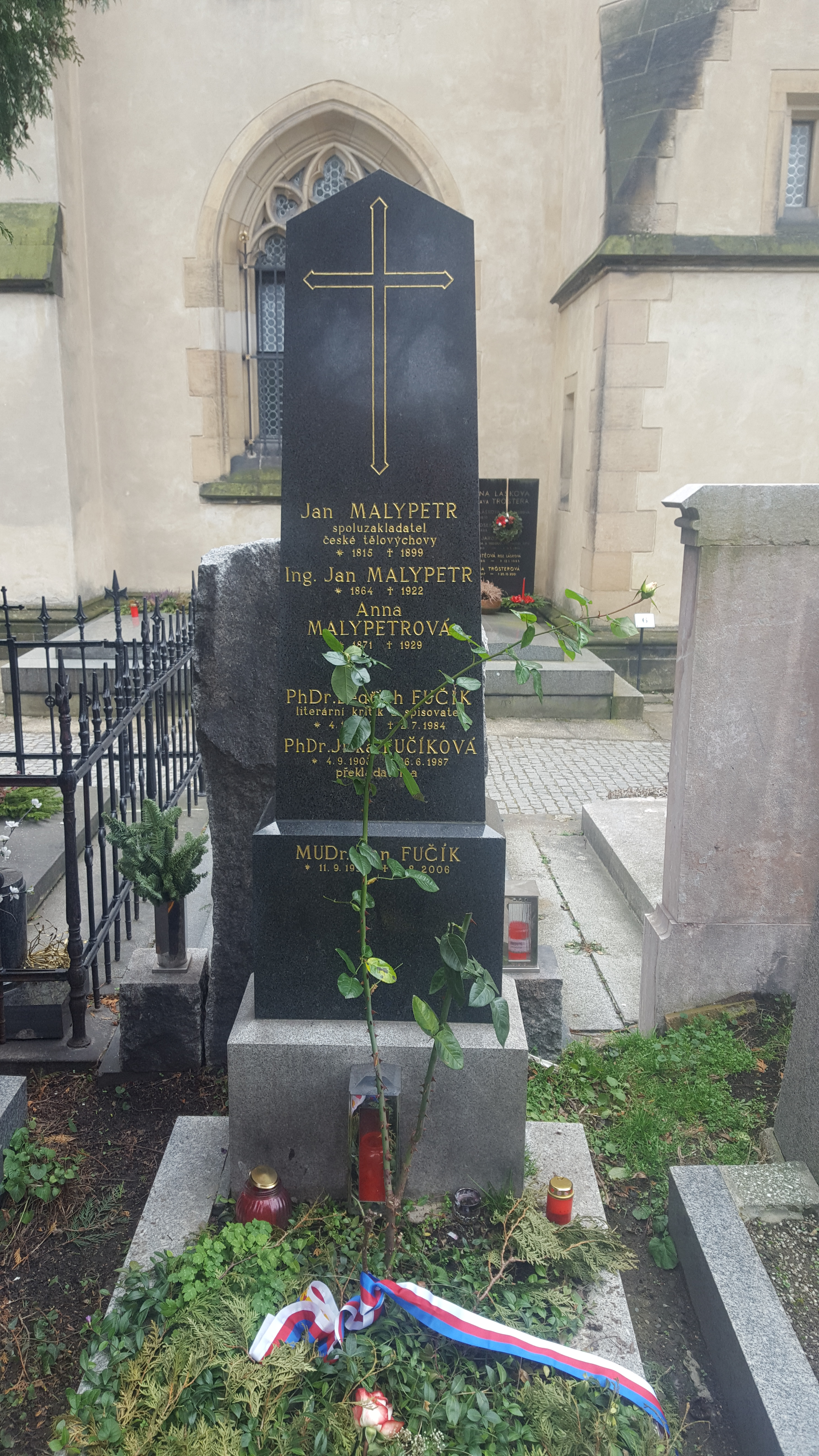 Tombstone of Jan Malýpetr (1815-1899, teacher of physical education), his son Jan Malypetr (1864-1922, forest engineer), his daughter Anna Malypetrová (1871-1929) and also Bedřich Fučík (1900-1984, translator), his wife Jitka Fučíková (1903-1987, also translator) and their son Jan Fučík (1932-2006, physician) at Vyšehrad cemetery in Prague.